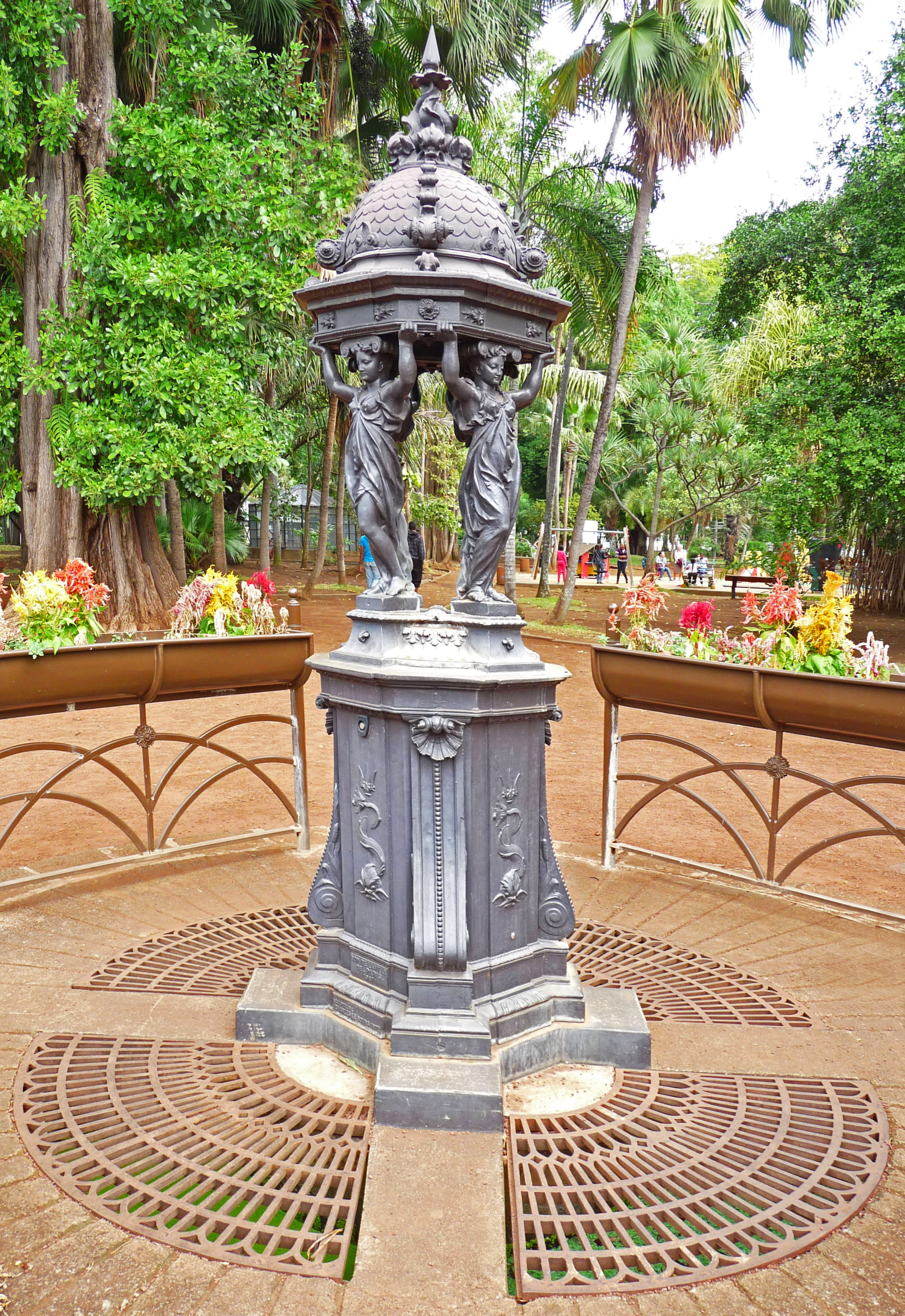 The fountain Wallace in the Reunion island.